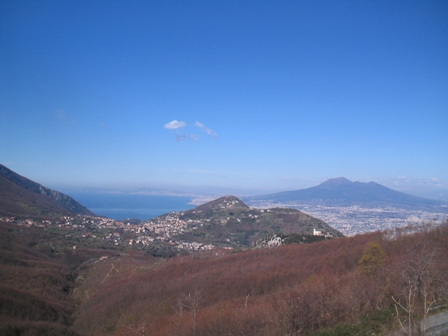 The municipality of Pimonte, in Campania, seen from the Lattari mountain range. In the background Castellammare di Stabia.